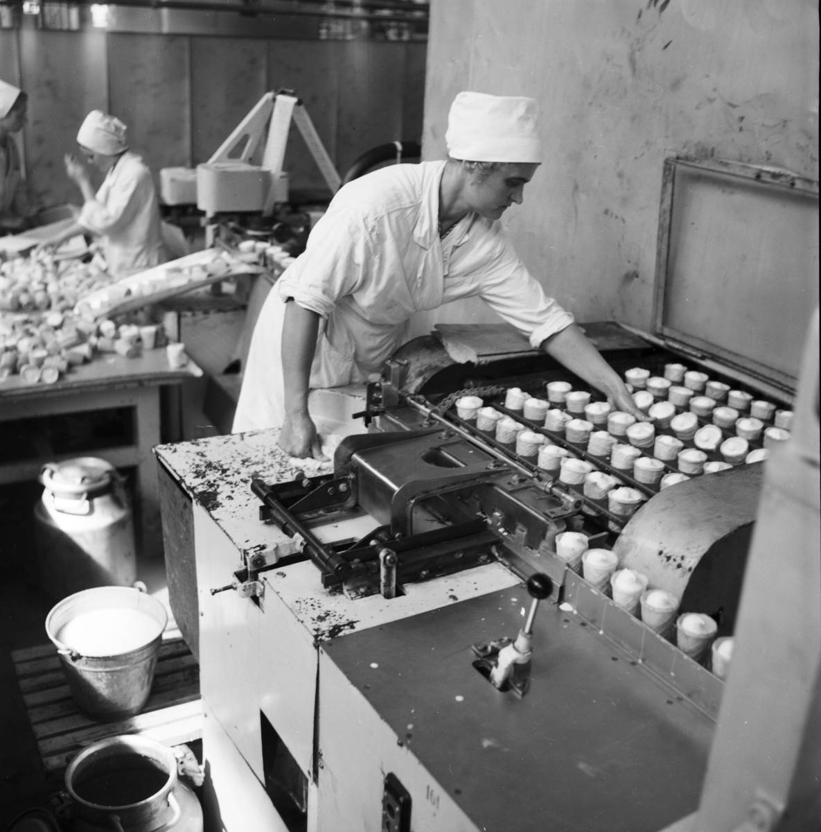 Tradicinių ledų gamyba, Klaipėdos pieno kombinate 1975m. Nuotraukos autorius Bernardas Aleknavičius.